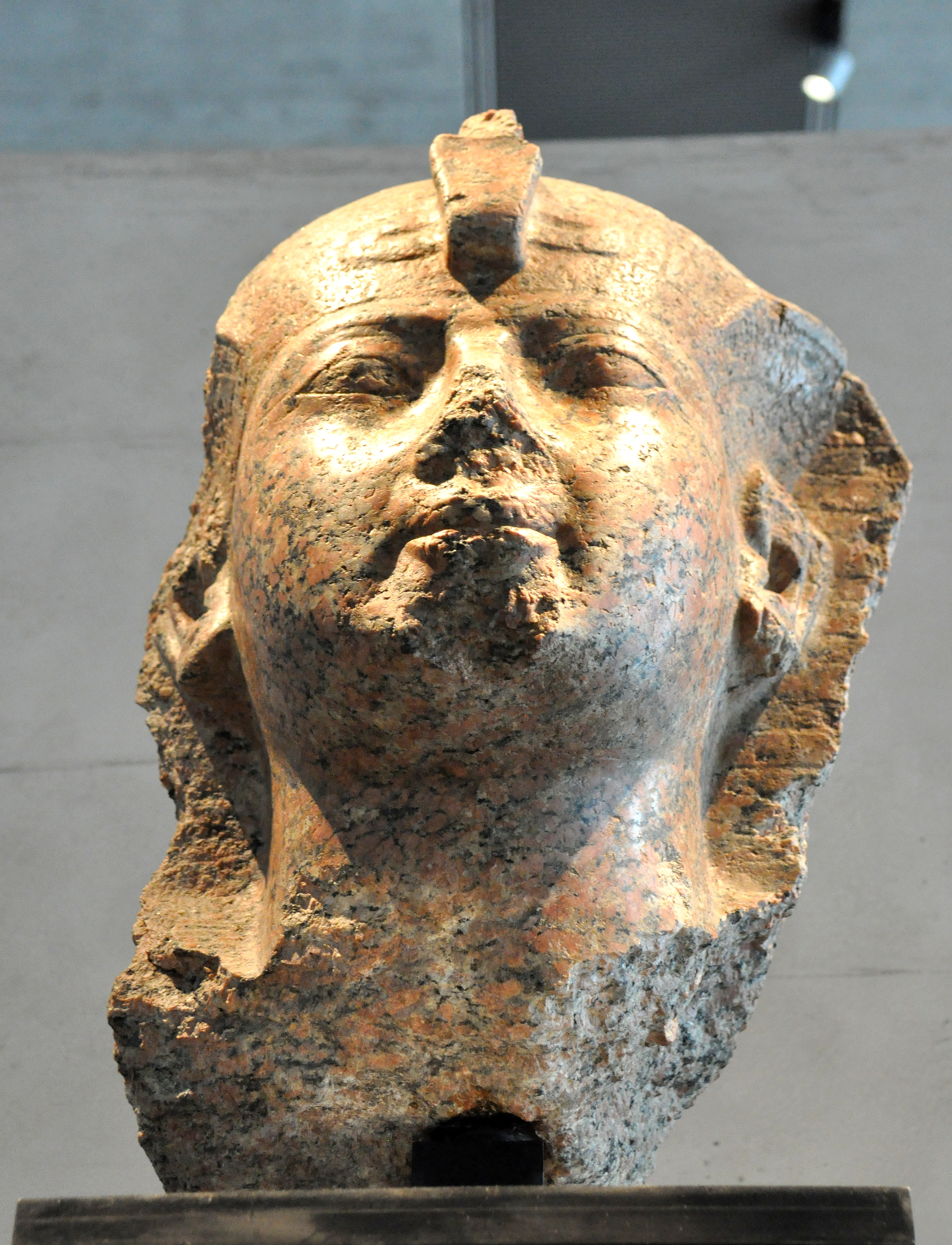 Head of the Egyptian Queen Hatshepsut. She wears the royal headdress, as a pharaoh. New Kingdom, 18th Dynasty, c. 1460 BC. From Egypt. Rose Granite.